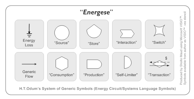 This image is a recreation of the :Image:Energy Systems Symbols.gif constructed by user:Sholto Maud with no rights reserved.